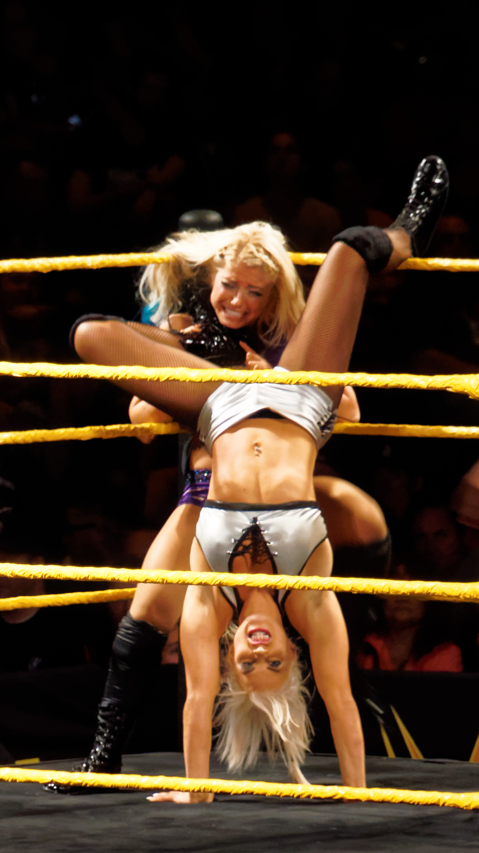 Dana Brooke (front) chokes Alexa Bliss at an NXT event in San Jose, California in March 2015